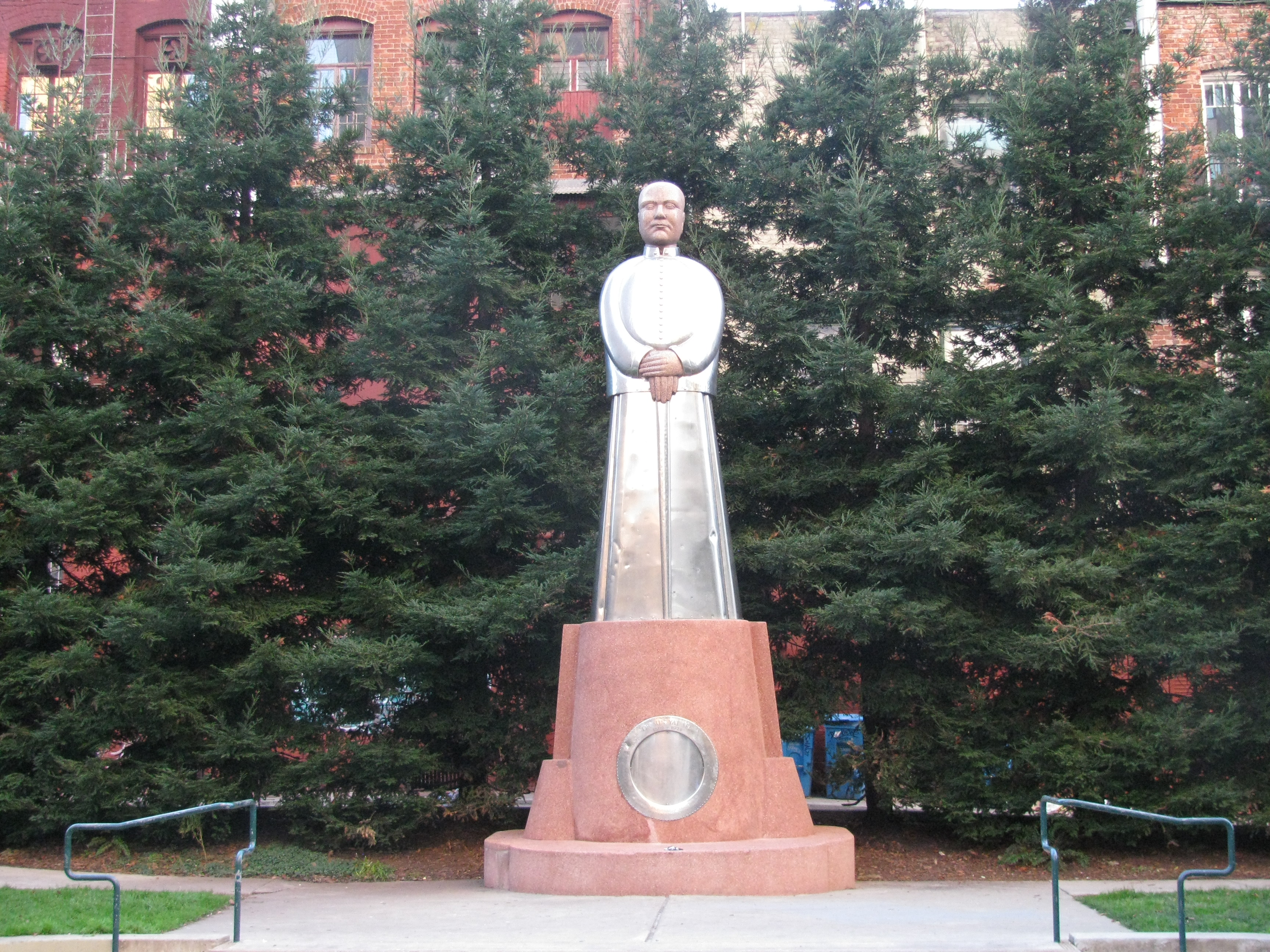 Dr. Sun Yat-Sen's statue in St. Mary's square, San Francisco Chinatown